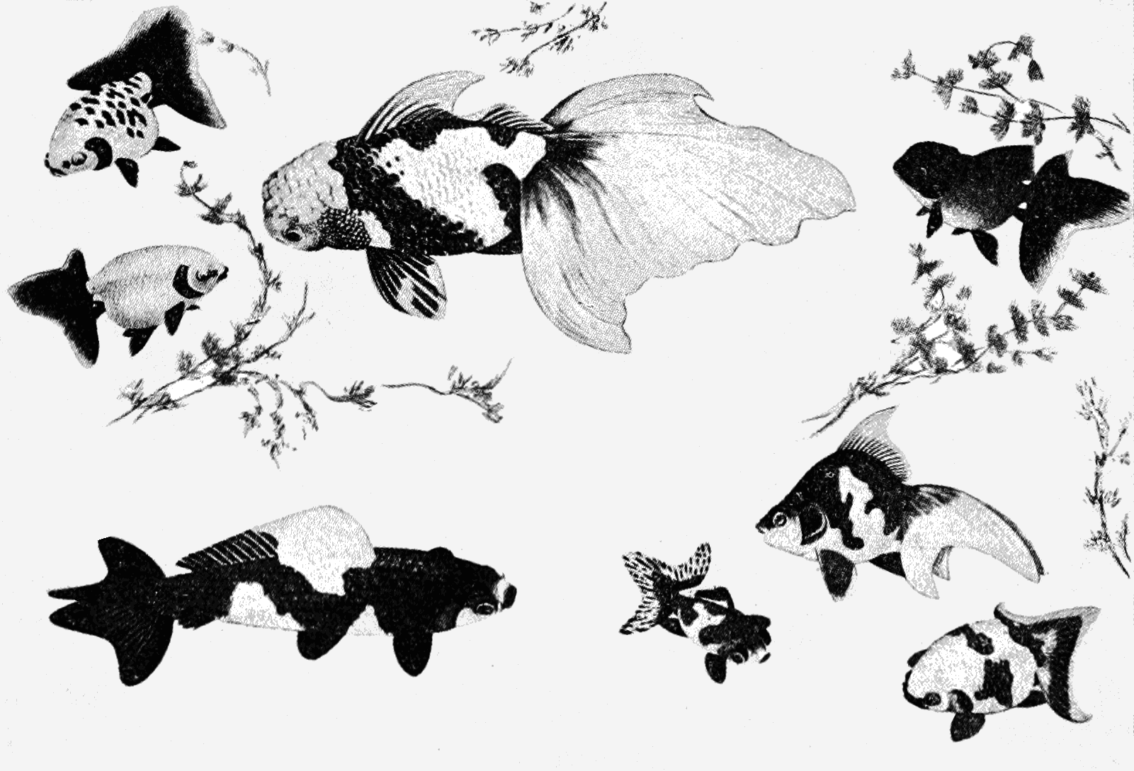 Varieties of gold-fish (from Japanese paintings): Lower left, wakin; lower right (group of three), deme, ryukin, ranchu; upper left (two), ranchu; upper middle and right, oranda shishigashira.